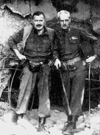 Col. Charles T. Lanham and Ernest Hemingway in Germany 1944.